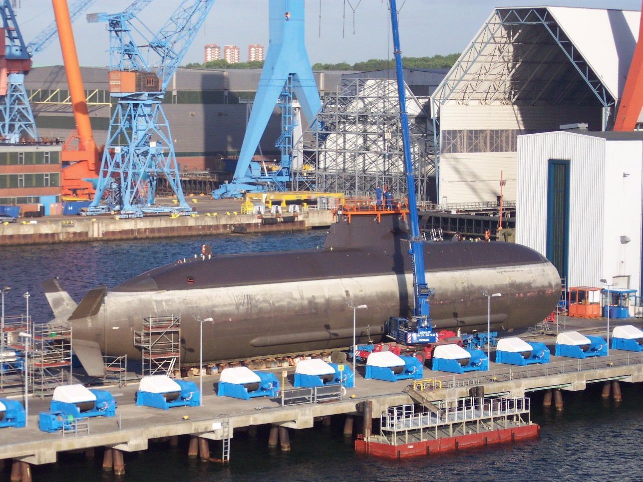 Submarine Typ 212 in Docks at HDW/Kiel. Picture taken by my own. This picture may have usage restrictions.